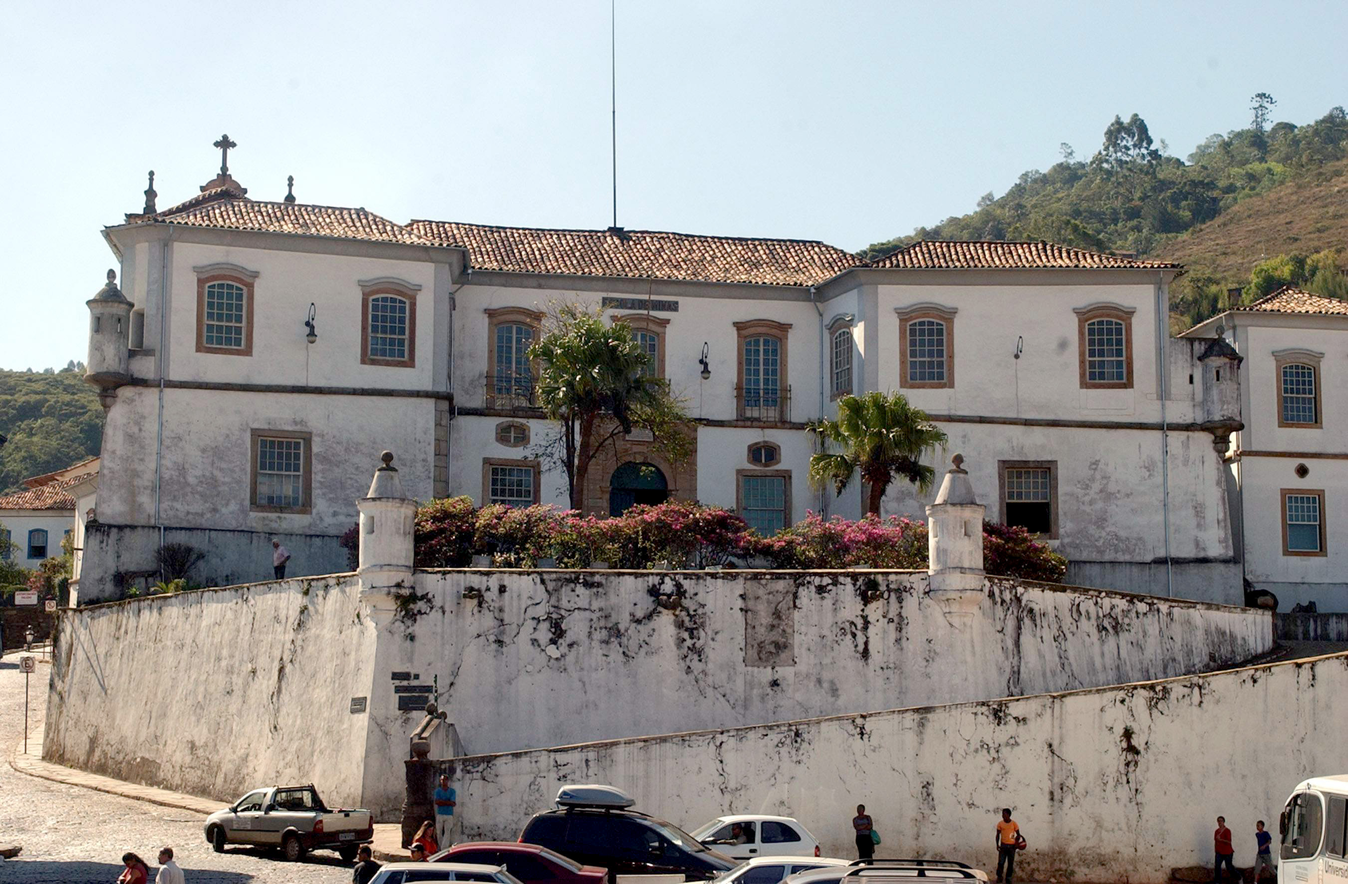 Governor's Palace of Ouro Preto, Brazil